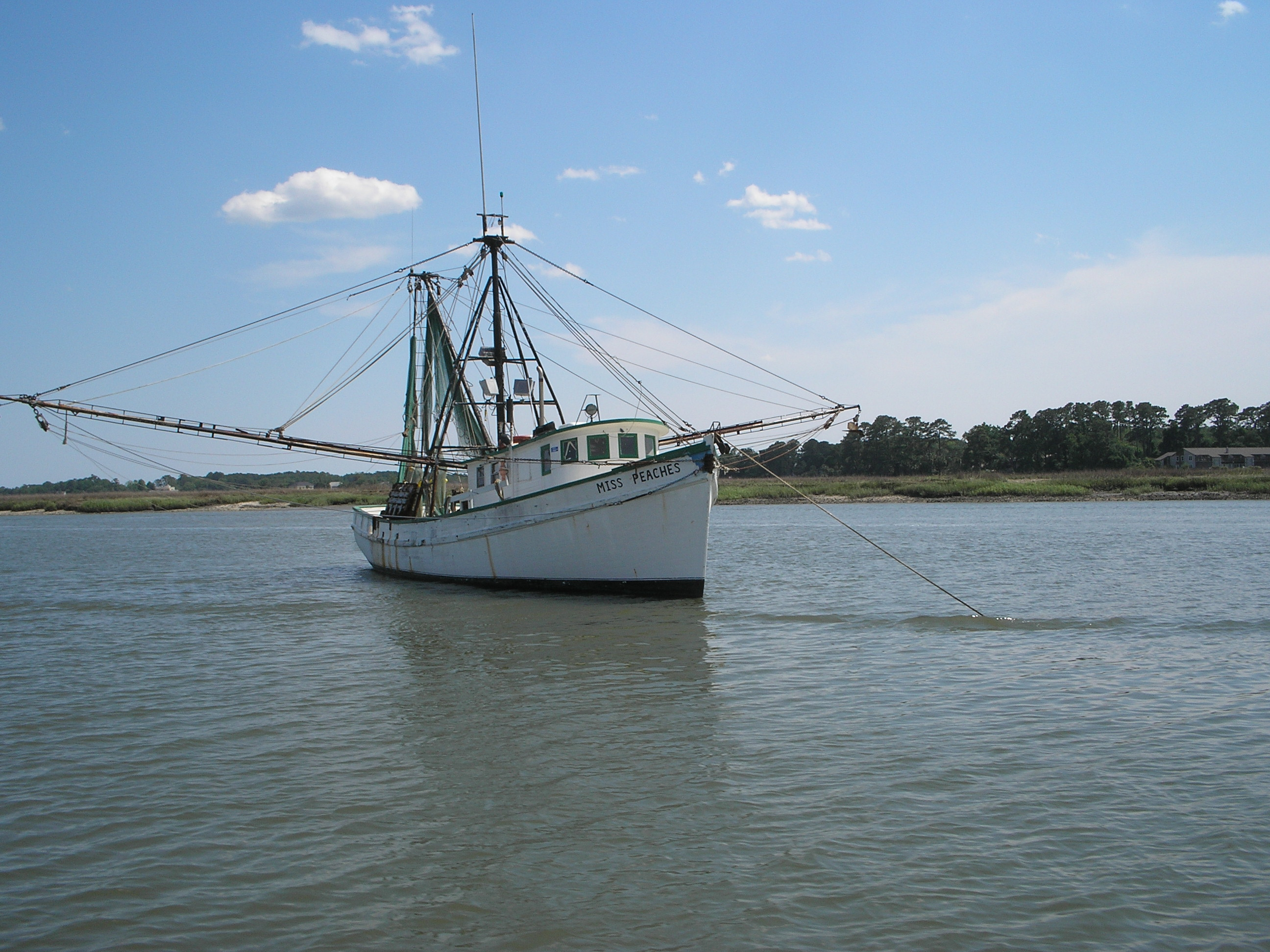 Fishing boat in a salt marches. Location: Tybee Island, Georgia, USA